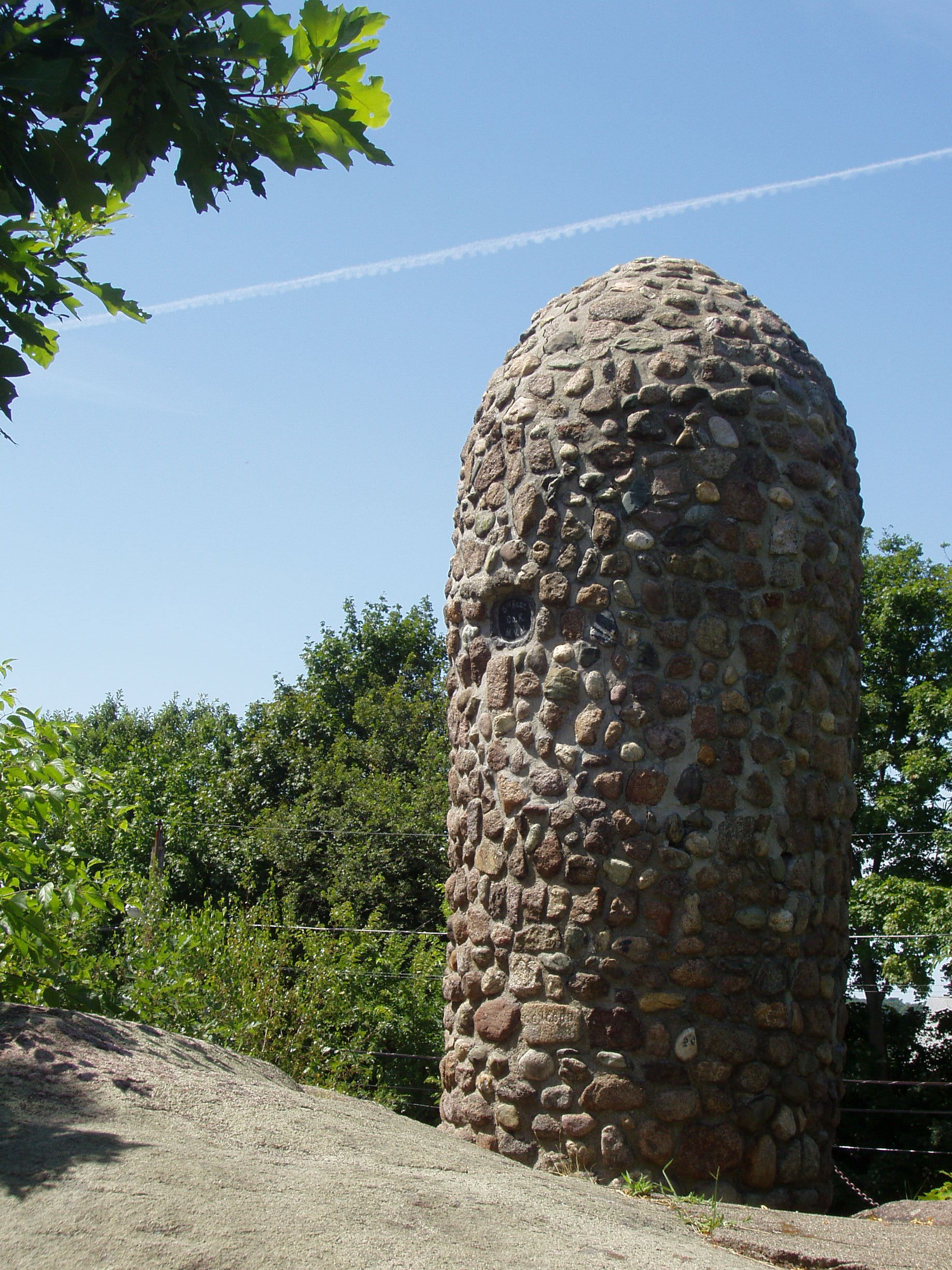 Abigail Adams Cairn, Quincy, Massachusetts, erected June 17, 1896. Located on Penn's Hill, now at the corner of Franklin Street and Viden Road. Photograph taken by me, August 2005.